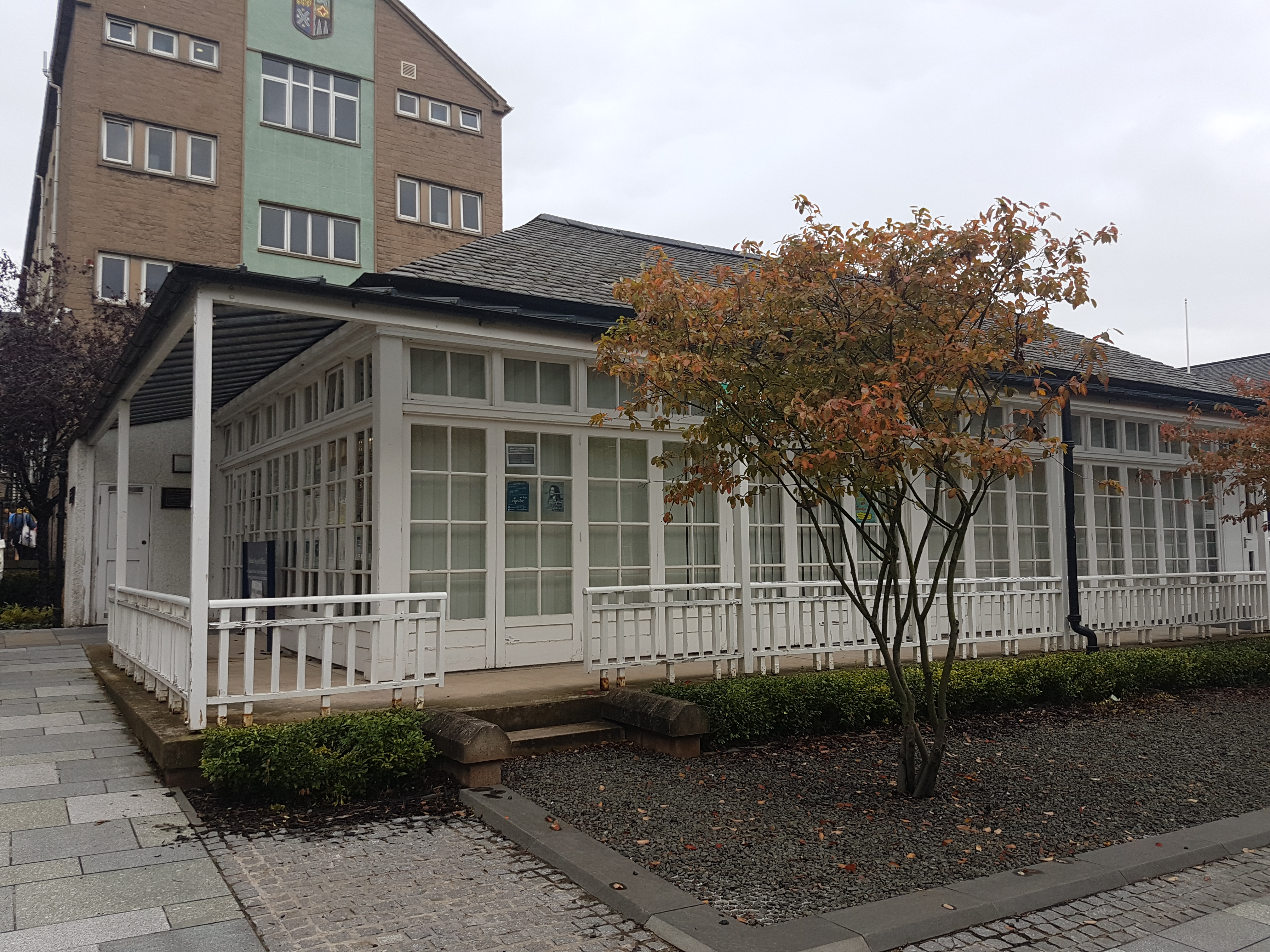 Edinburgh, St John's Street, Moray House College Of Education, Reception Building Wikidata has entry Q17807271 with data related to this item.